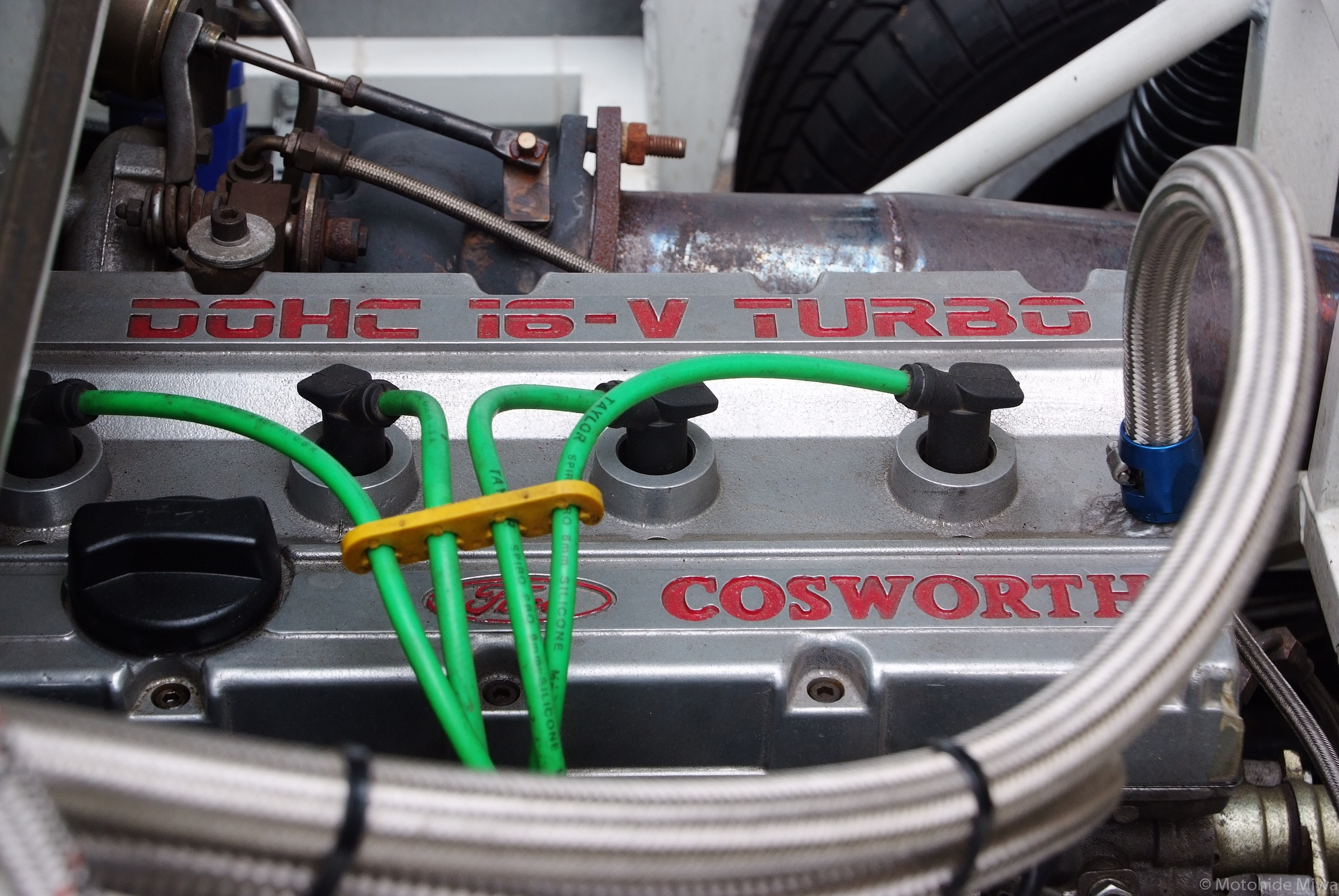 The engine bay of a Ford RS200.